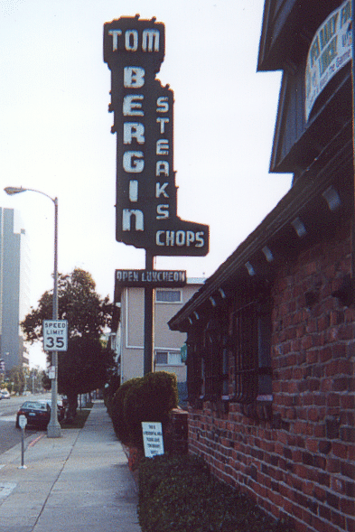 Tom Bergin's Tavern in Los Angeles, California, August 2002 (looking north on Fairfax Avenue).